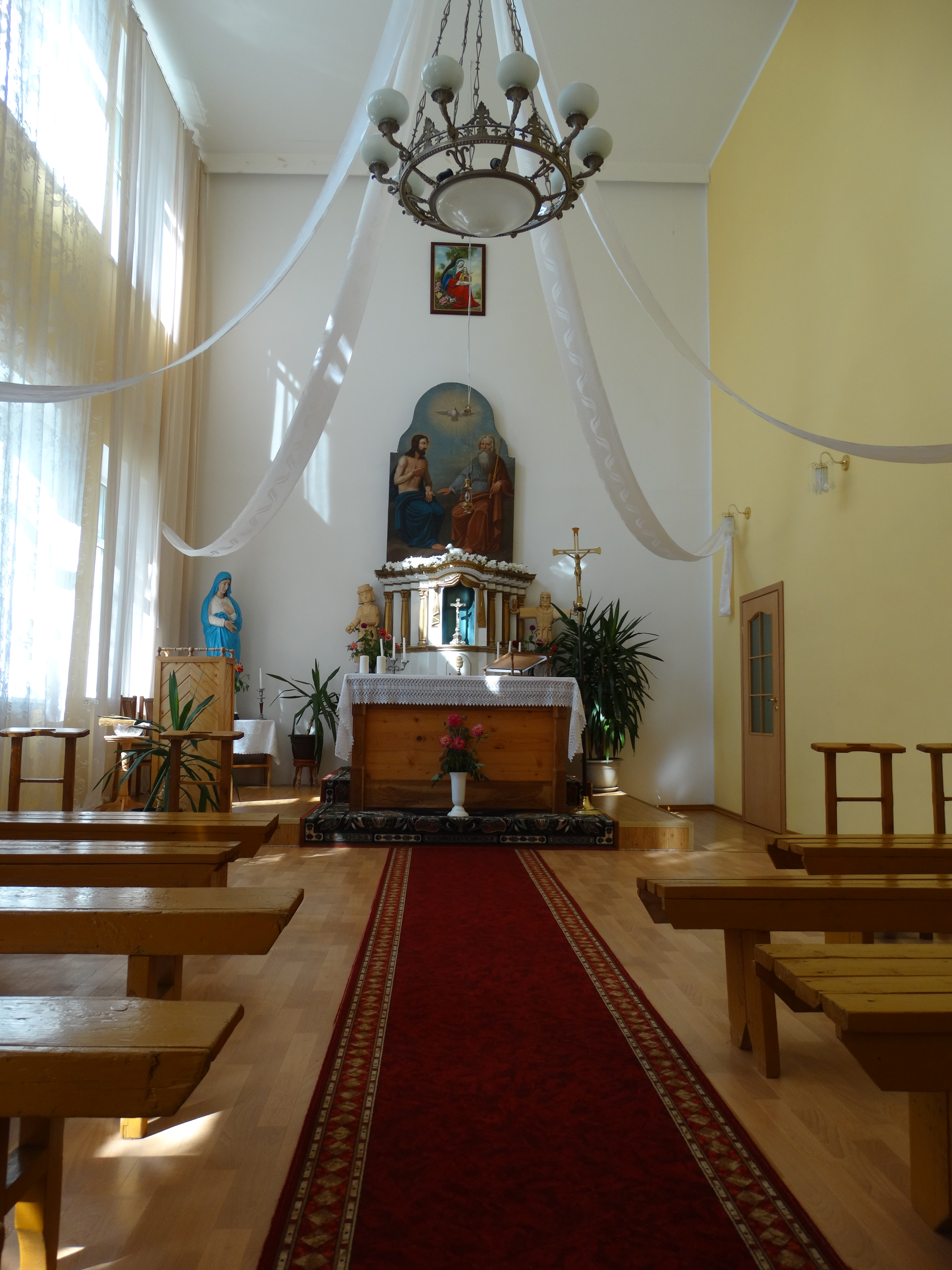 Saint Anne's chapel in Suviekas, Zarasai District, Lithuania